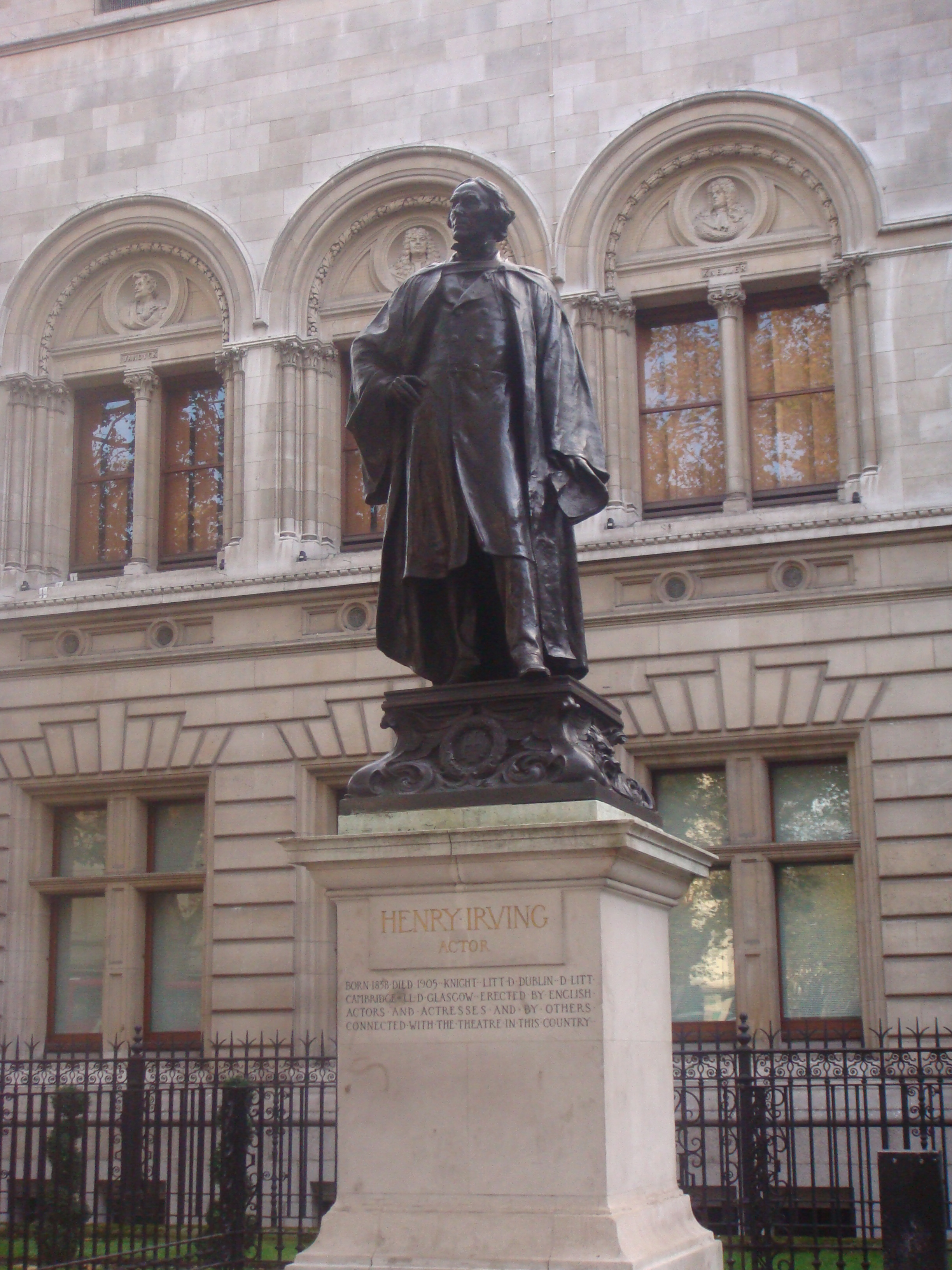 Statue of actor Henry Irving in London.